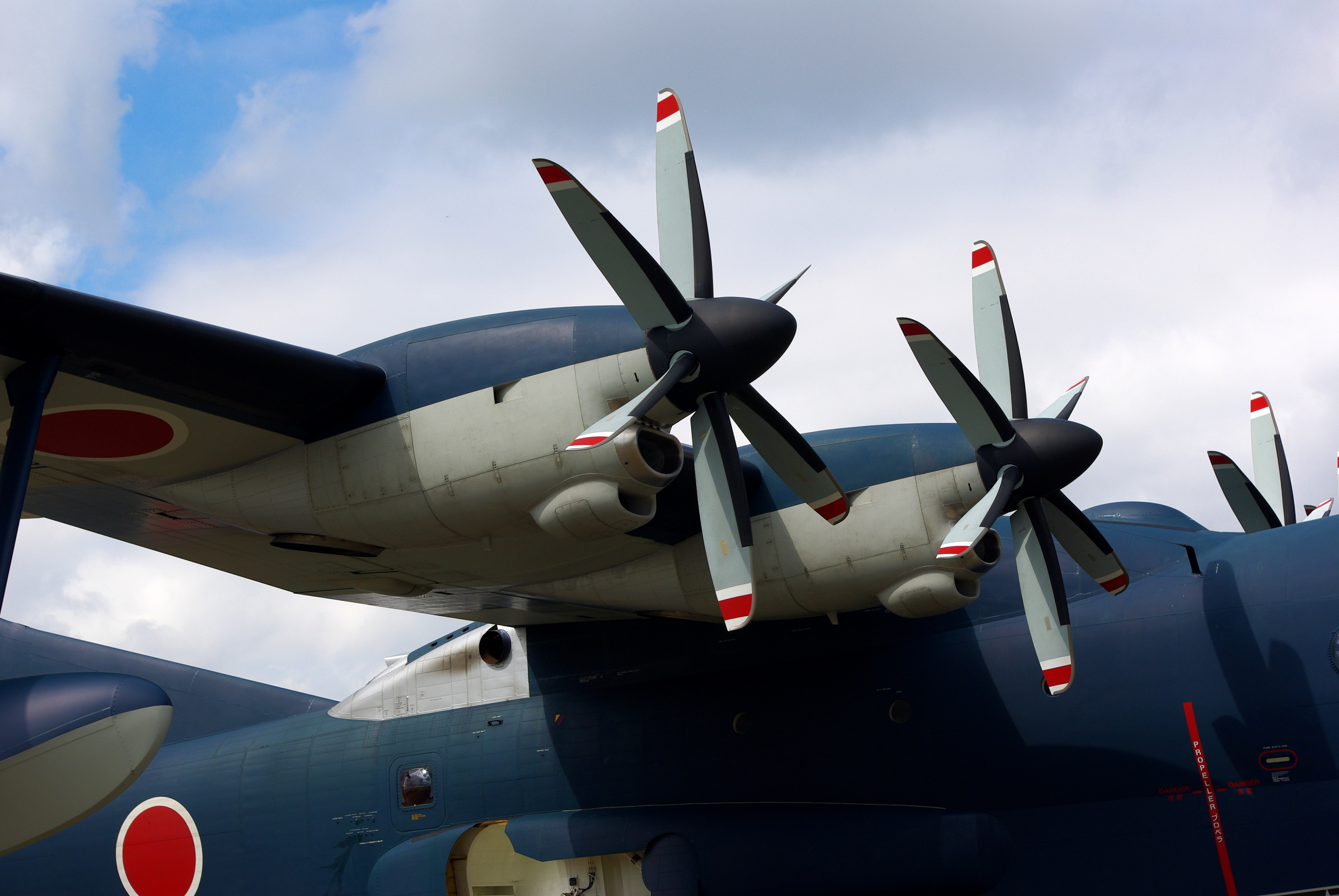 Taken by Los688,29-Sep-2012,JMSDF Shimofusa Air Base.ShinMaywa US-2 (71st SQ / Japan Maritime Self-Defense Force).PD-self. ja:2012年9月29日、投稿者撮影。海上自衛隊下総航空基地記念行事。新明和US-2救難飛行艇（海上自衛隊 第71航空隊 9902号機）。